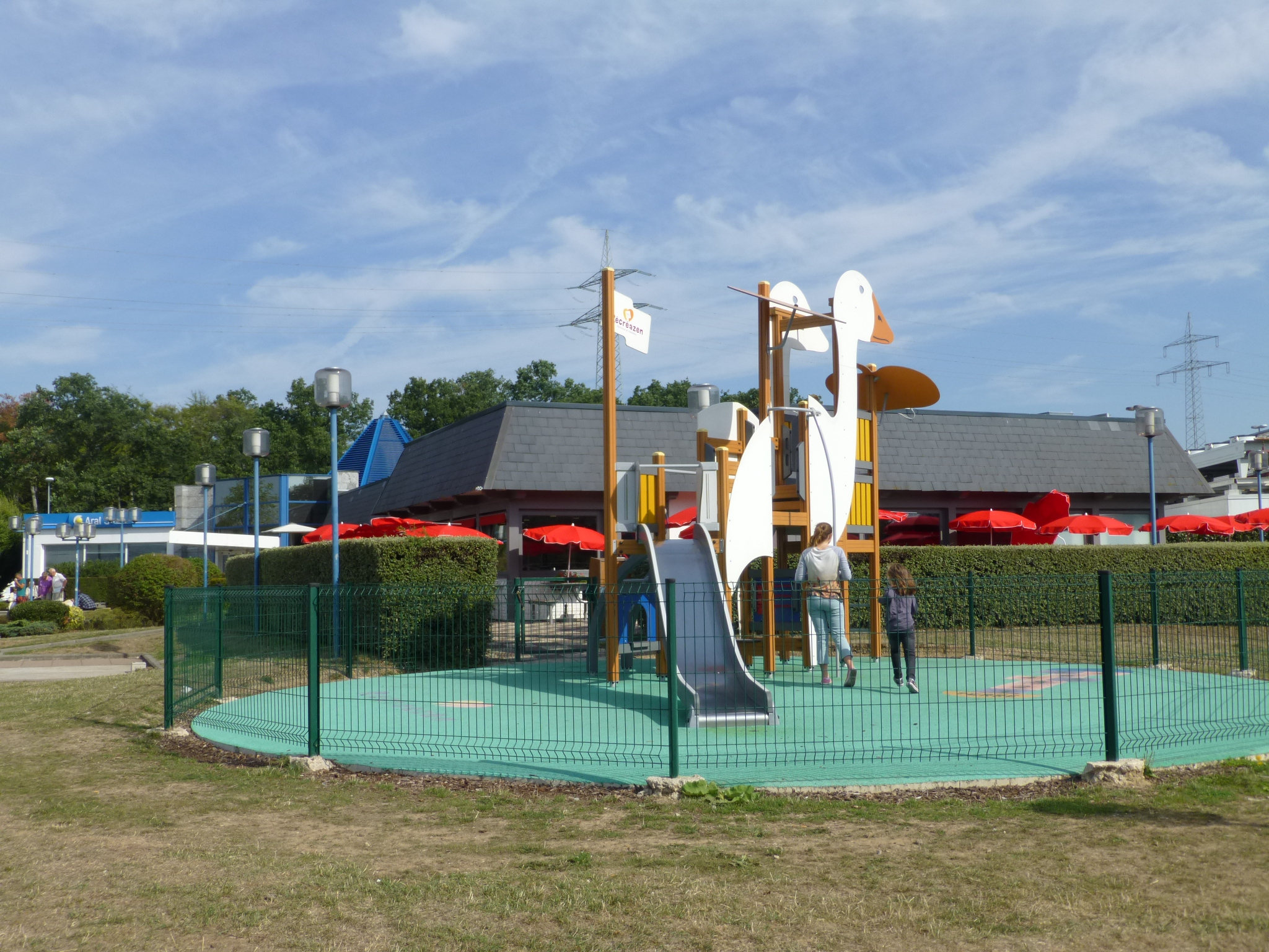 Rest area in Berchem, Luxembourg in 2015. Well known for its fuel service.